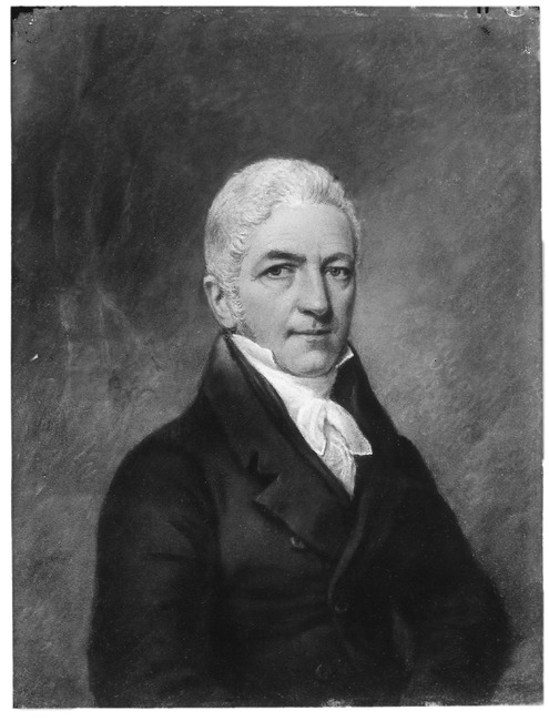 Portrait of Anthony Meertens, born 19-07-1753 in Demerara (Guyana), died 07-06-1815 in Clifton (England)